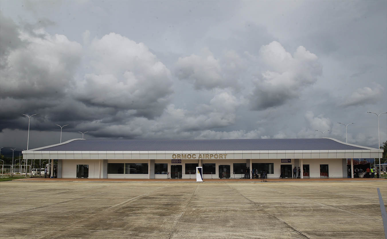 Photo shows the Ormoc City Airport after its rehabilitation through the collaboration of the Department of Transportation, Civil Aviation Authority of the Philippines, and other stakeholders. President Rodrigo Roa Duterte led the inauguration of the Ormoc City Airport Development Project in Leyte on July 5, 2019.